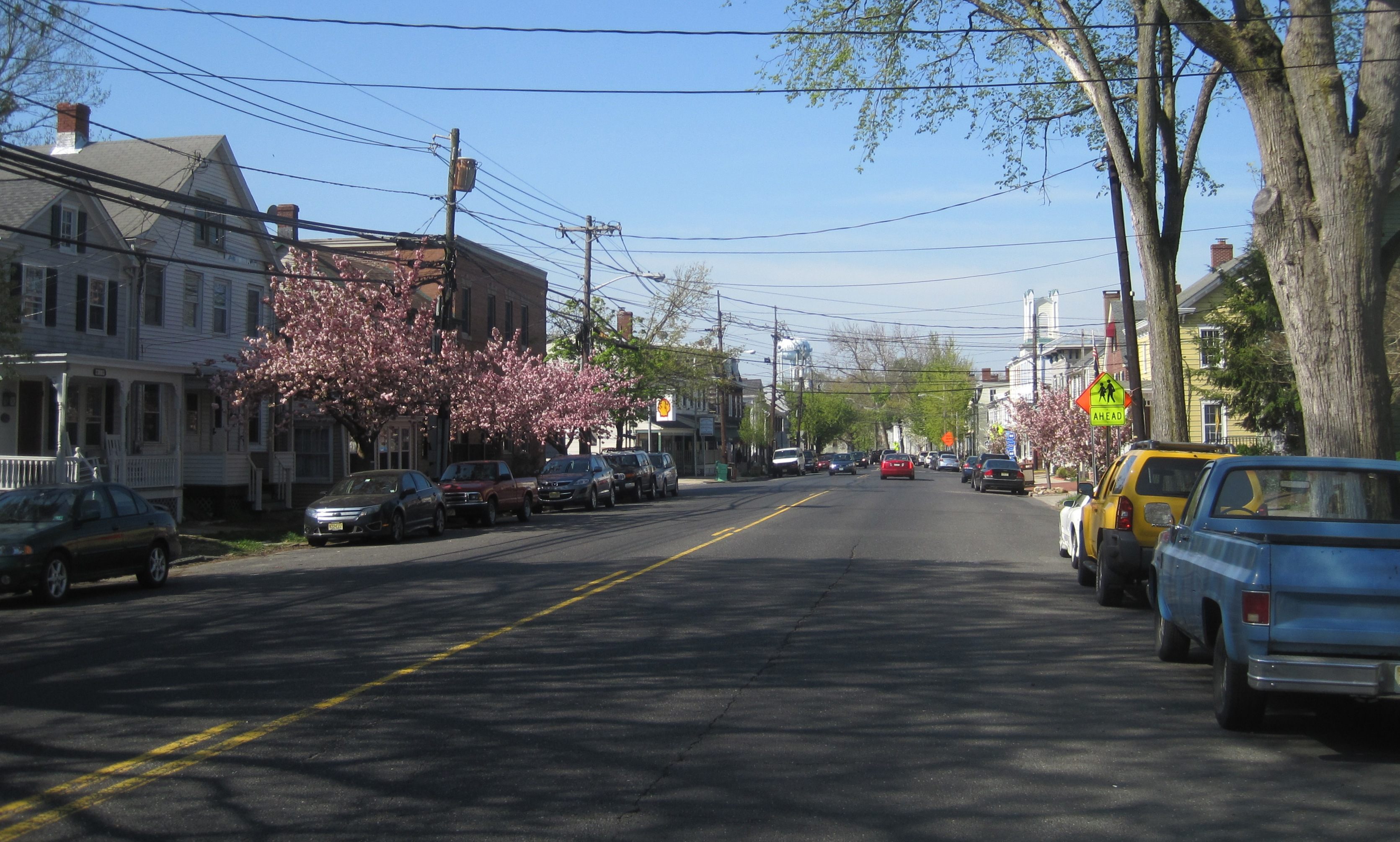 Photograph of Main Street (County Route 524 and 539) in Allentown, New Jersey.